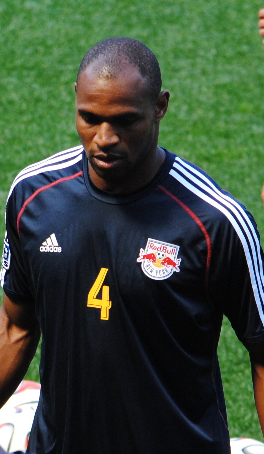 Olave in training with Red Bulls